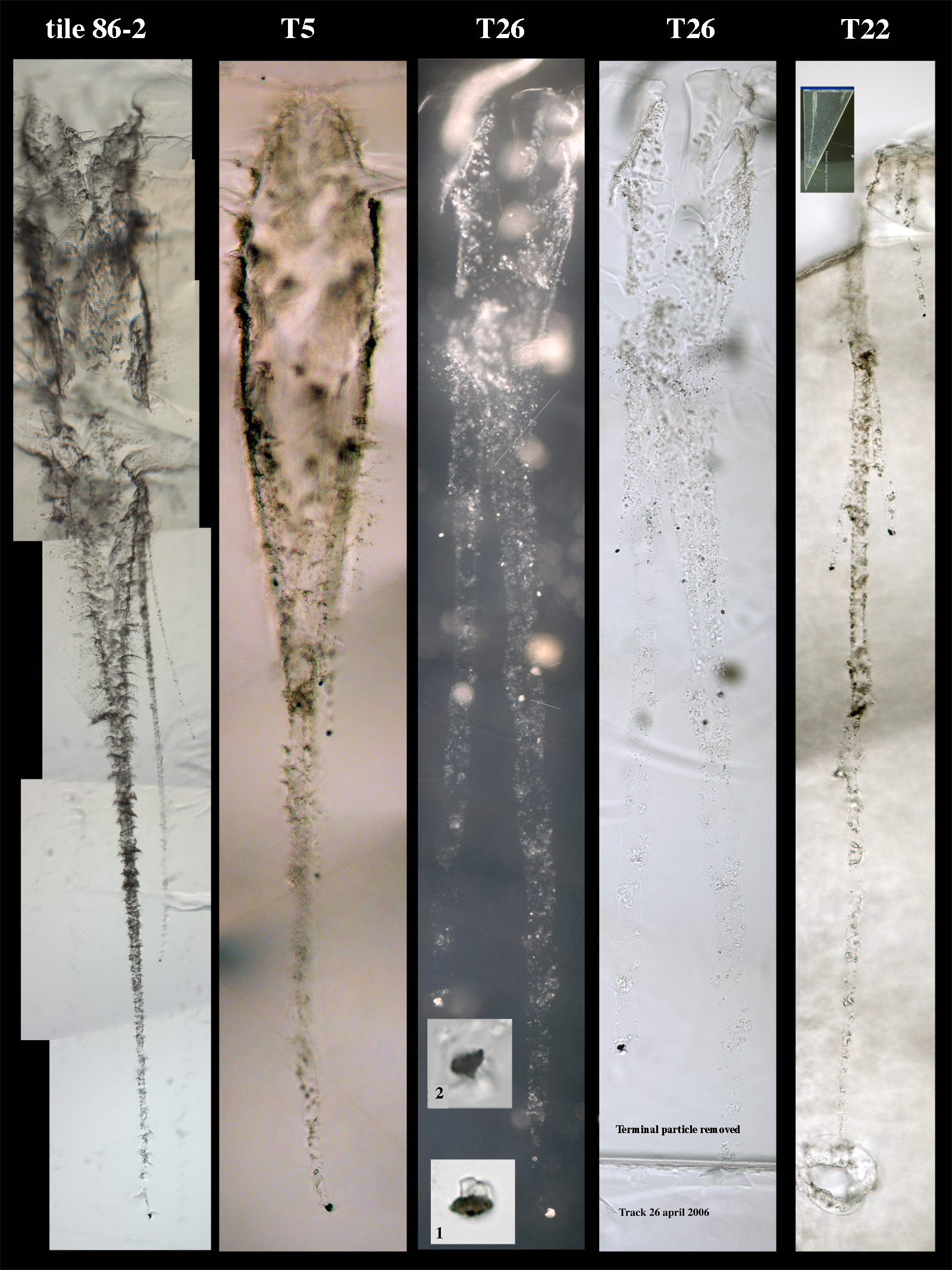 Comet particle tracks in aerogel. of Stardust spacecraft.